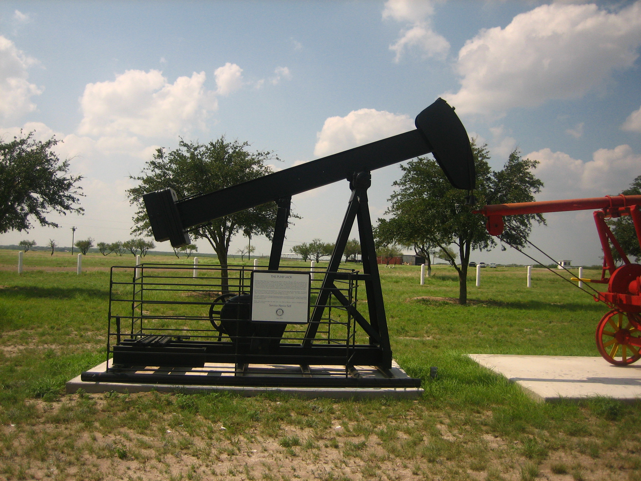 I took photo on July 30, 2008.Billy Hathorn (talk) 23:47, 7 September 2008 (UTC)